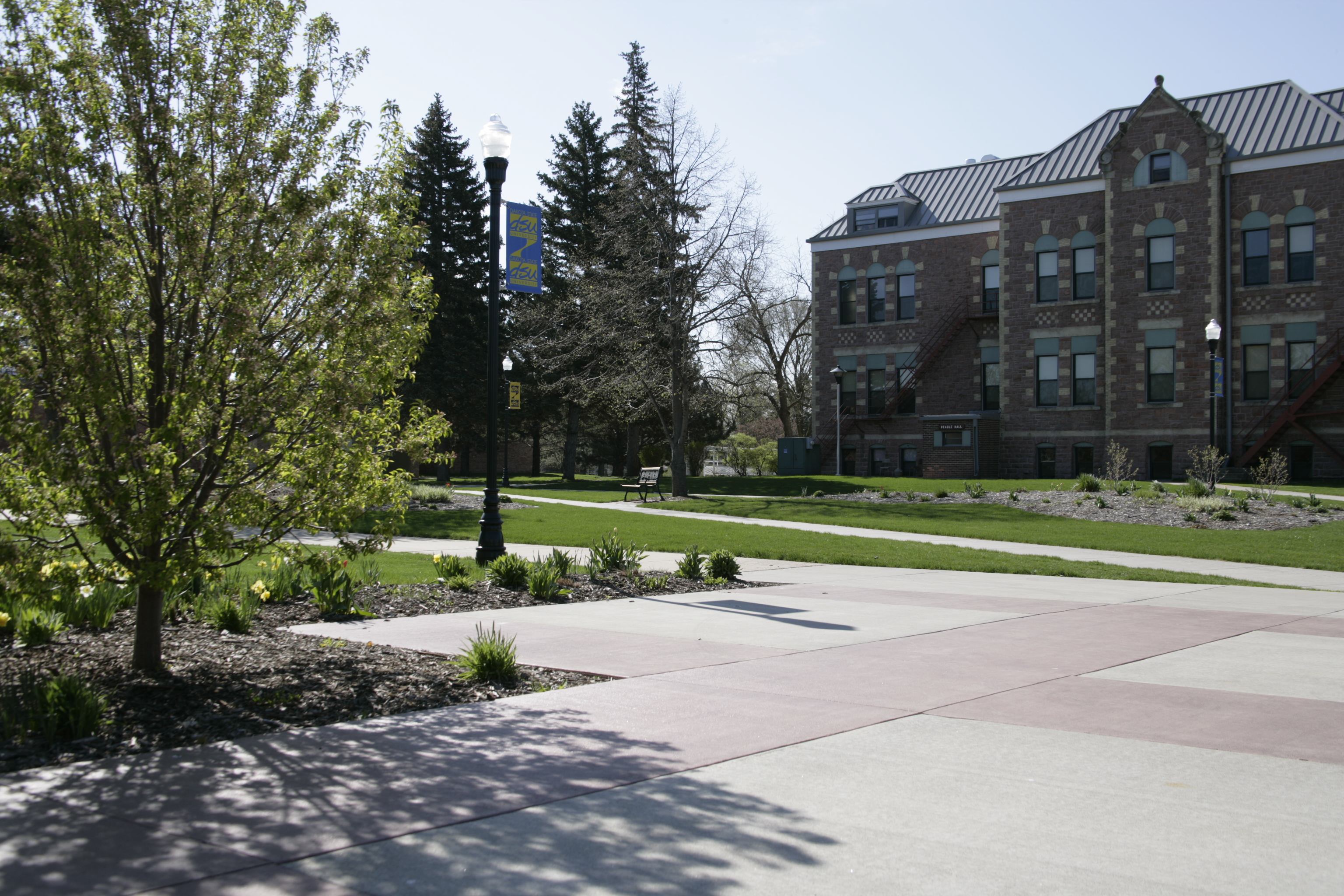 DSU campus picture facing Beadle Hall, Madison, South Dakota